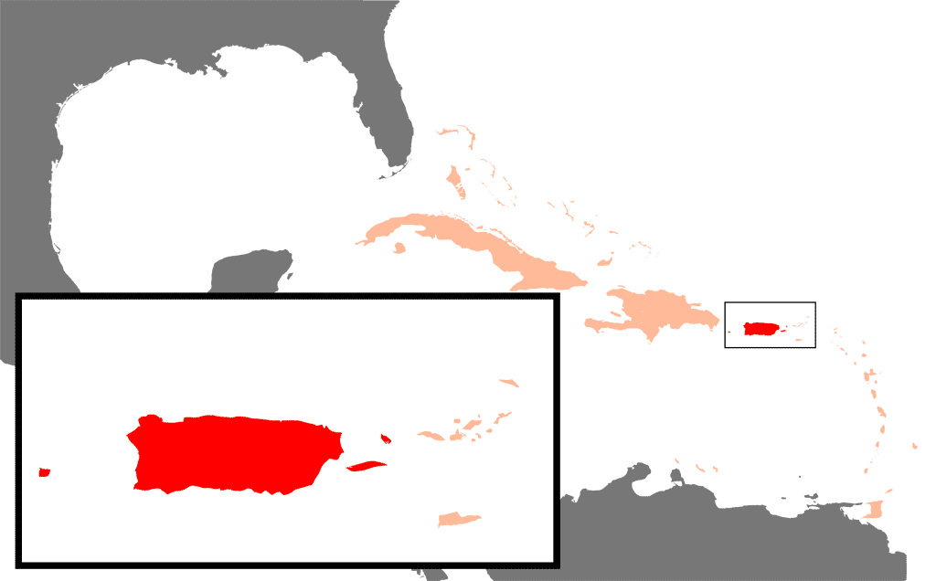 Position of Puerto Rico in the Caribbean